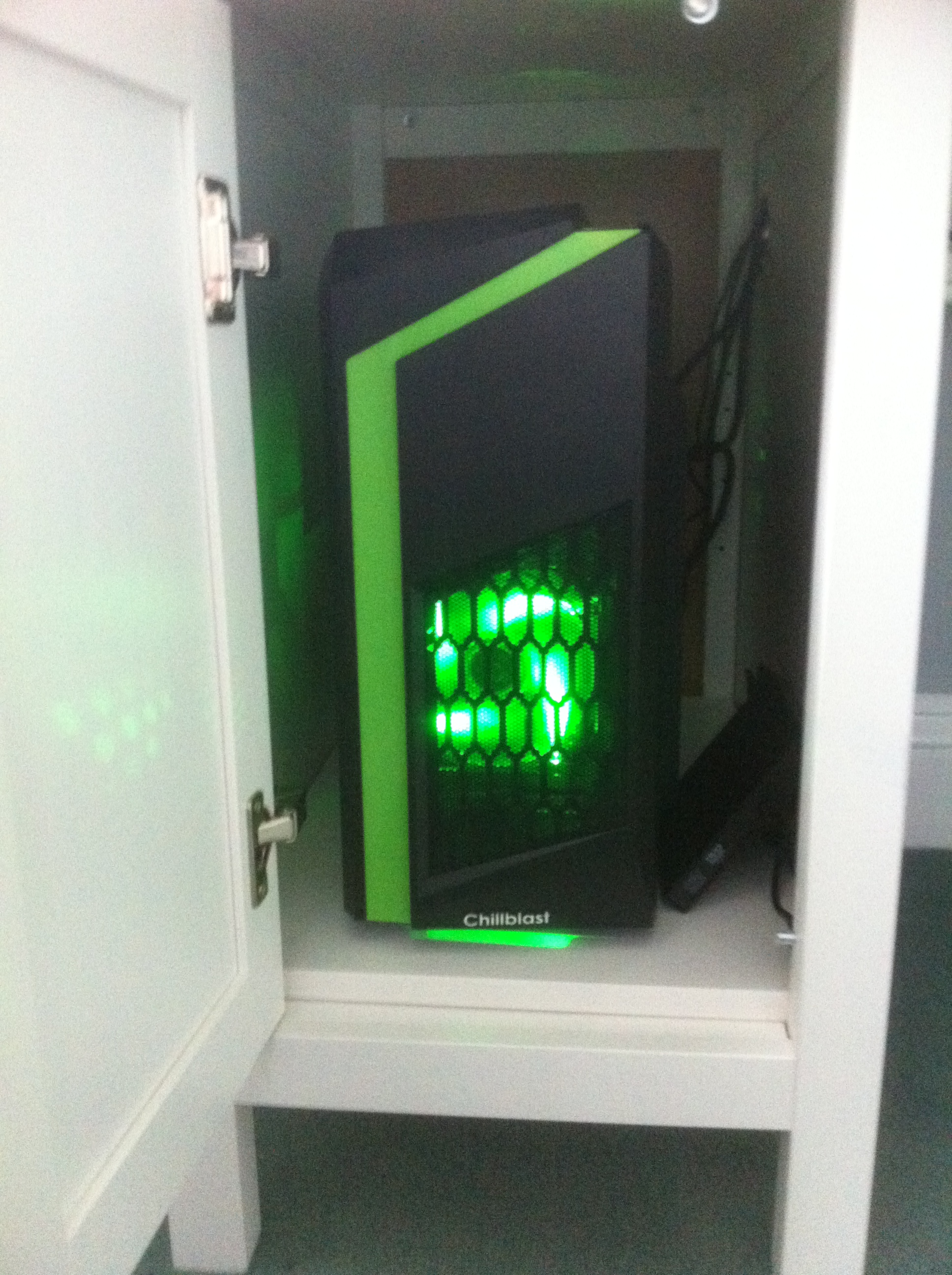 An example of a pre-built Gaming computer, a Chillblast Fusion Tracer, showing the case lighting used for the rig. This image was taken during a session with the manufacturer's tech support as for some reason the machine wouldn't boot beyond the BIOS. It later turned out that multiple components, including the graphics card and some of the connectors had been damaged in transit.